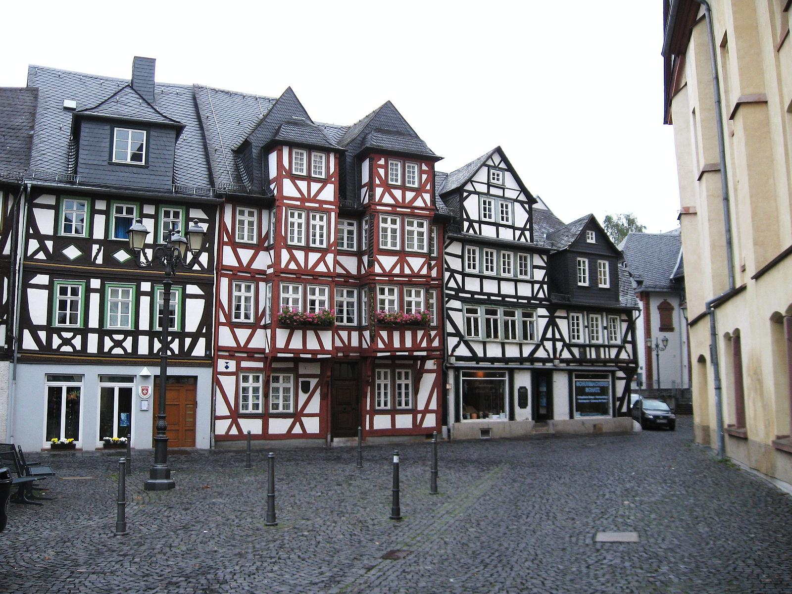 Germany / Middle Hesse / Town Wetzlar: half-timbered in the old city